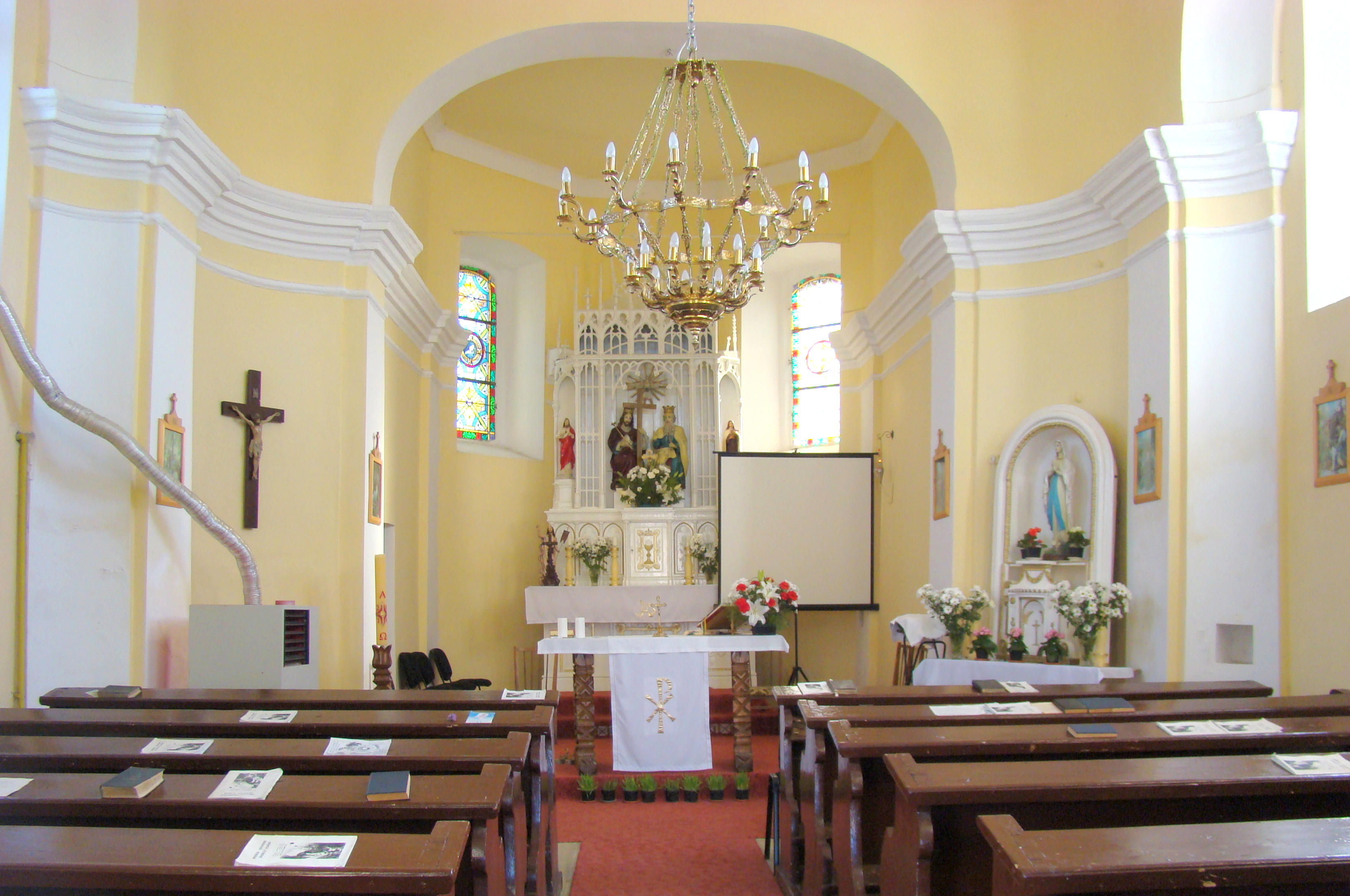 Roman-Catholic church in Cătina, Cluj county, Romania